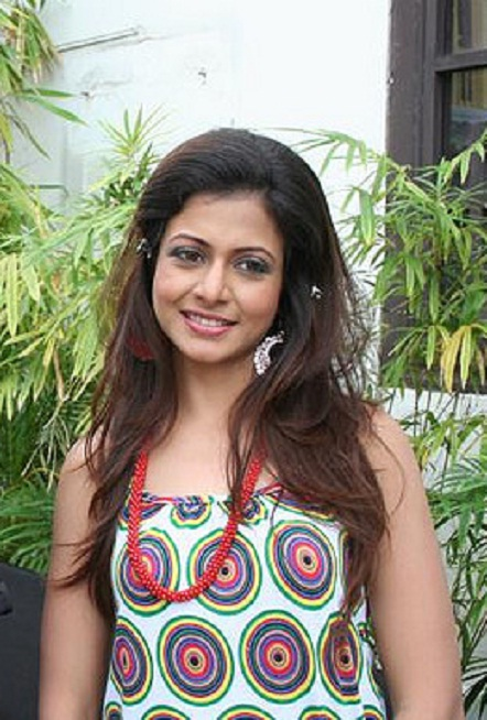 Koel Mullick, Bengali actress